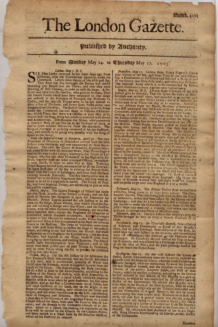 The London Gazette, dated 14 May 1705 detailing the return of Leake from Gibraltar after the Battle of Cabrita Point. Scanned image of the London Gazette from my personal collection, dated May 14 1705.